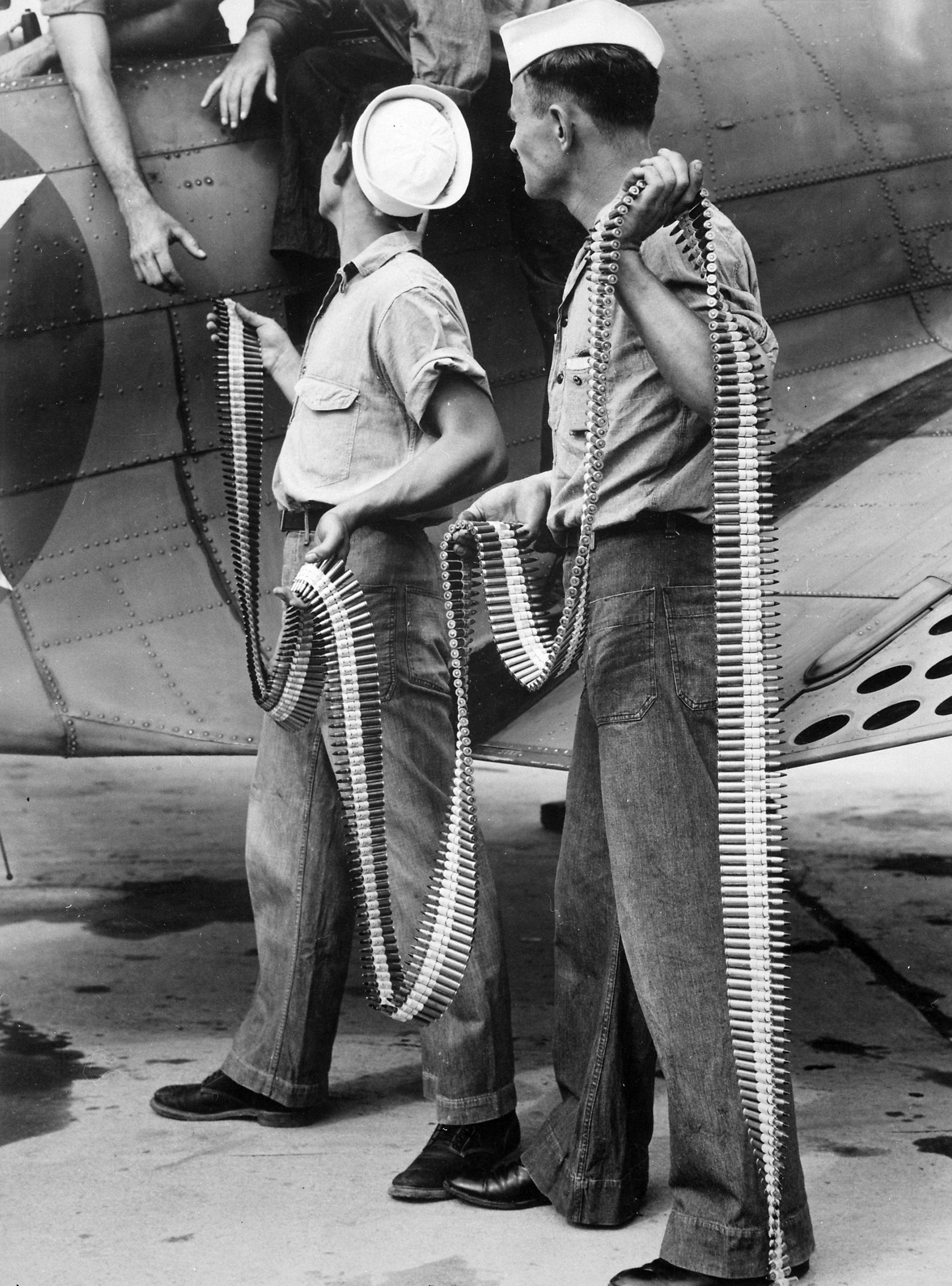 U.S. Navy ordnancemen loading belted cartridges into a Douglas SBD-3 Dauntless at Naval Air Station in Norfolk, Virginia (USA), in 1942.